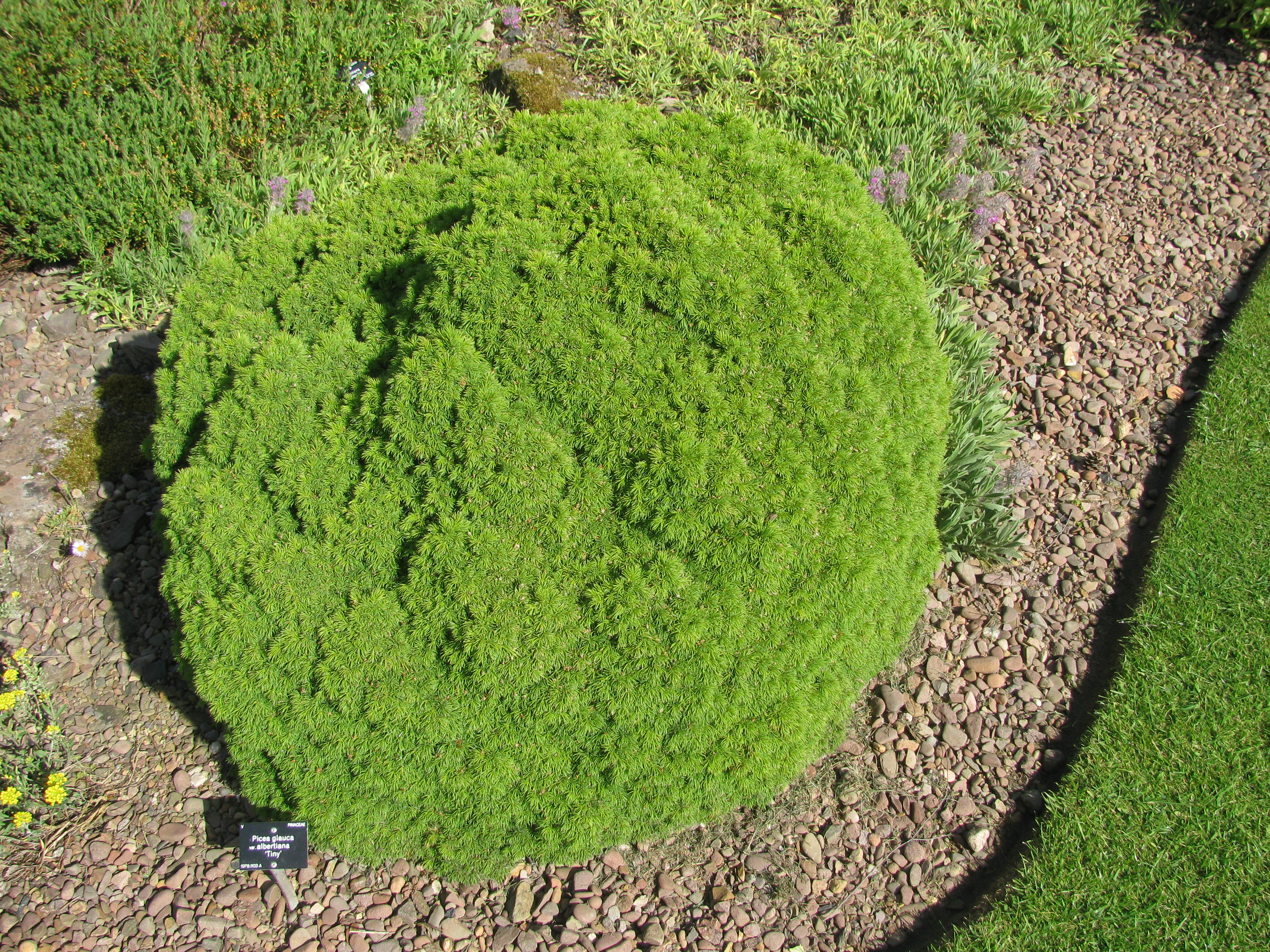 Dwarf Alberta spruce cultivar 'Tiny' Royal Botanic Garden Edinburgh: Accession number 1978.1103 A